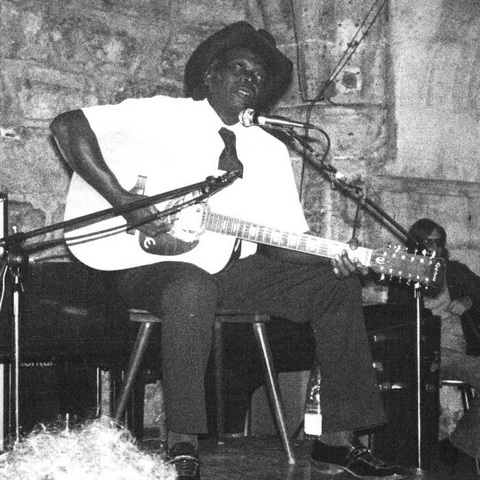 Blues guitarist Robert Pete Williams in Paris, Francee